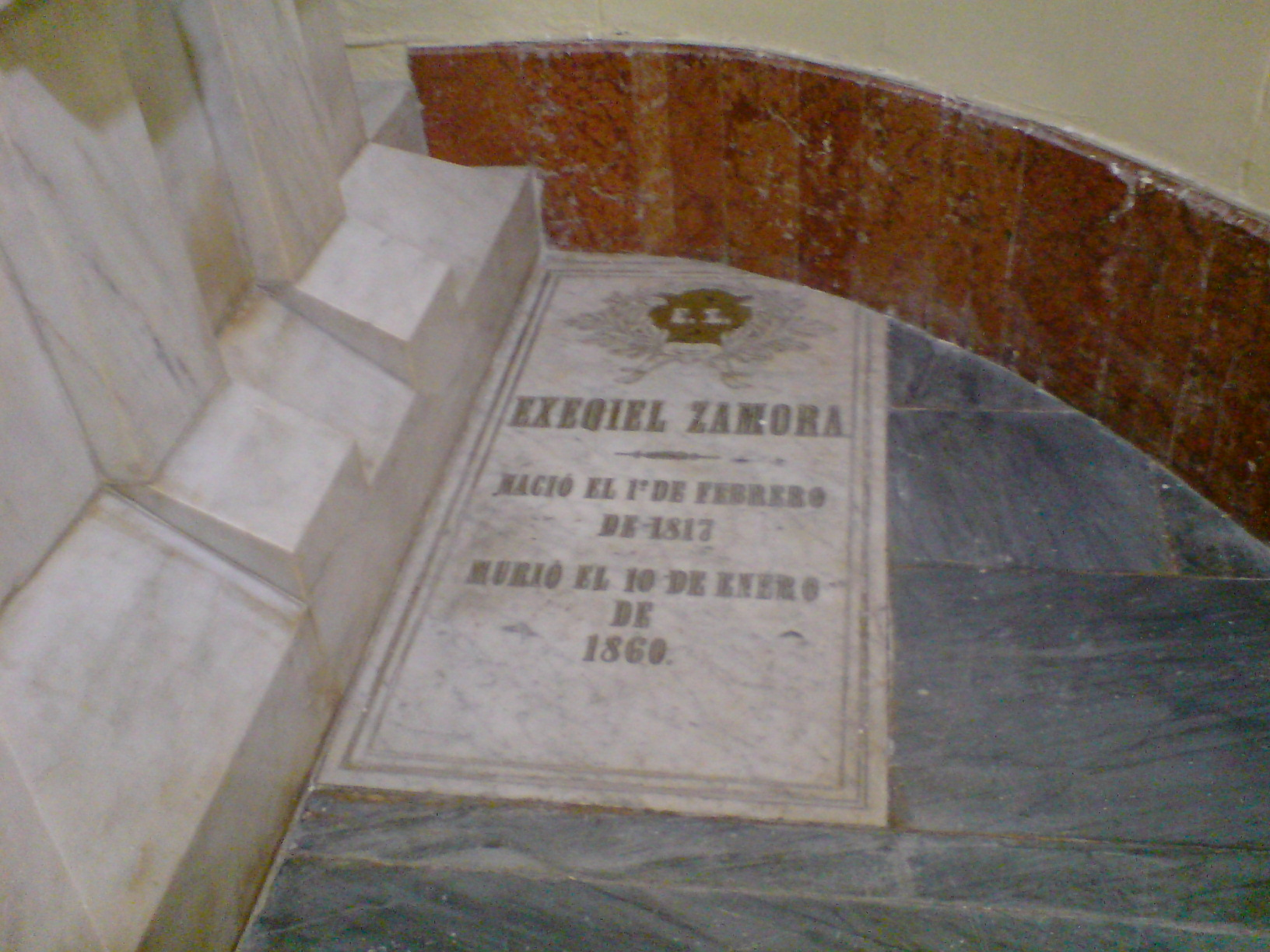 Tombstone of Ezequiel Zamora at one side of the Federation Monument at the National Pantheon of Venezuela.